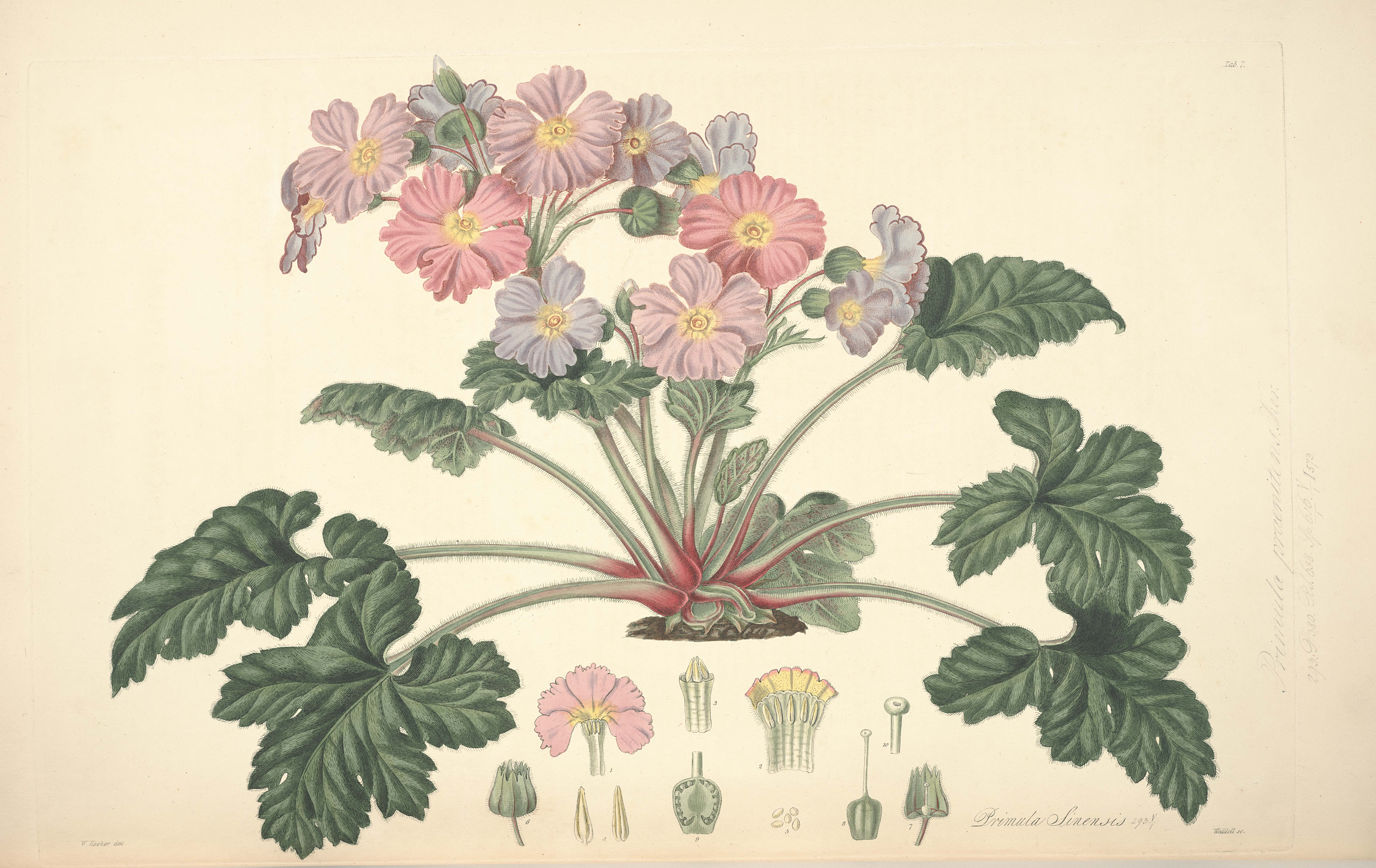 Illustration from John Lindley's "Collectanea botanica or, figures and botanical illustrations of rare and curious exotic plants"